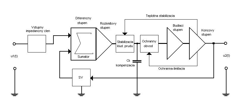 scheme low-power signal amplifier class "AB"